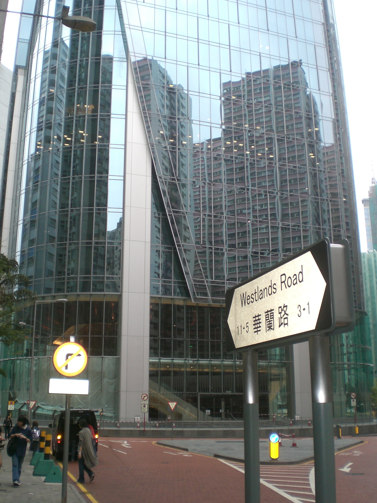 鰂魚涌 華蘭路 港島東中心